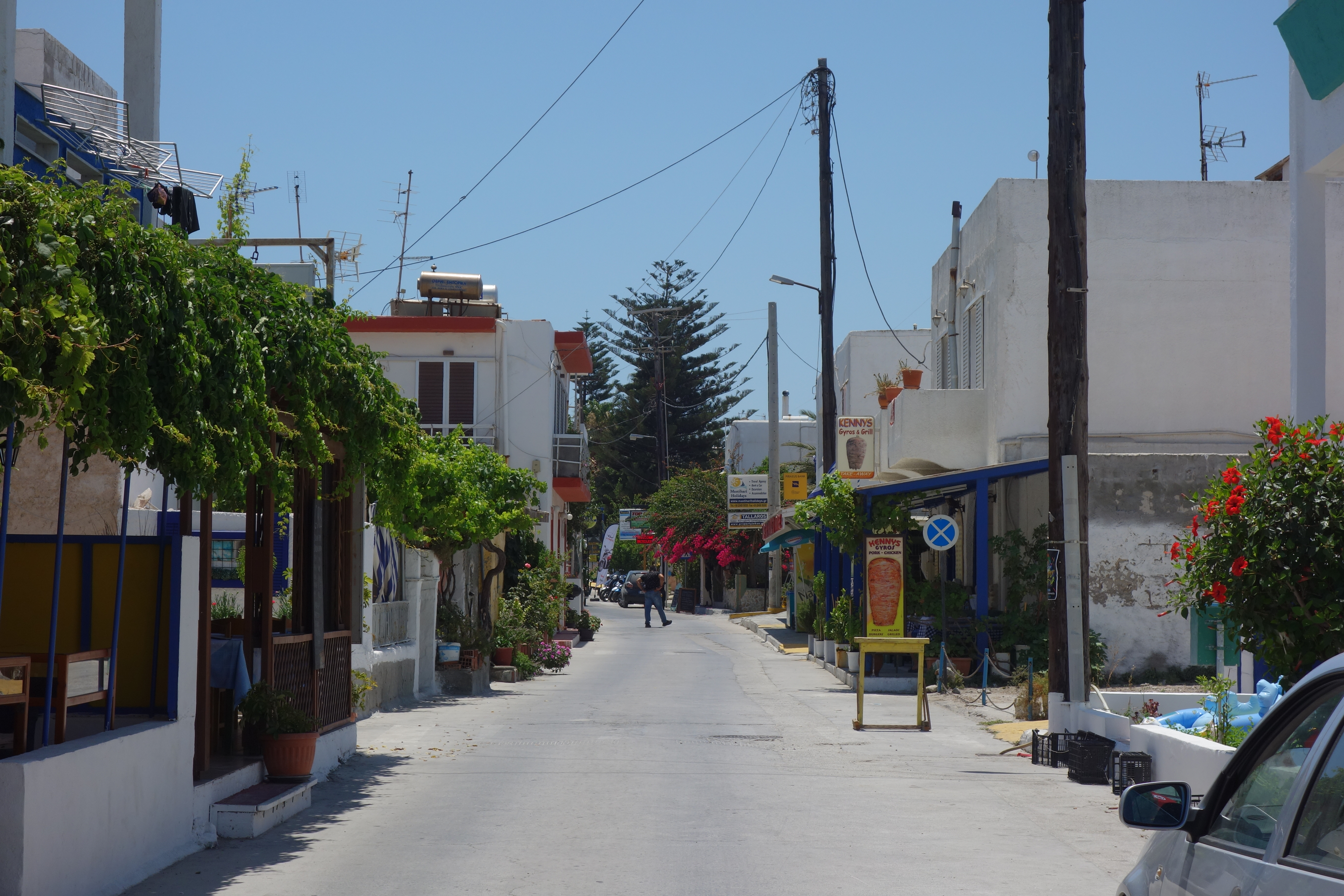 A street in the Greek village of Mastichari.